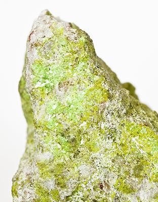 Schröckingerite Locality: La Soberania Mine, San Isidro, Mendoza, Argentina (Locality at ) Size: 5.0 x 3.1 x 2.4 cm. A rare uranium species, yellow microcrystals in contrasting matrix. Apparently a very uncommon example and the only reported species yet for this remote locality. Ex. Philadelphia Academy of Sciences Collection.